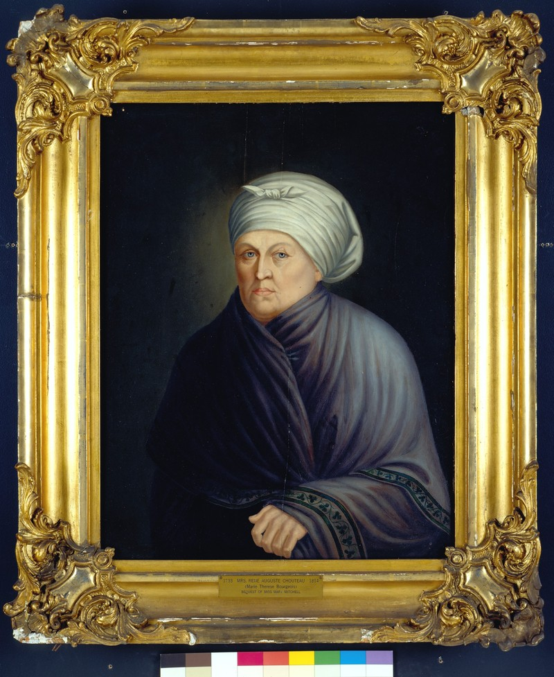 Oil on board portrait of Madame Marie Therese Bourgeois Chouteau.